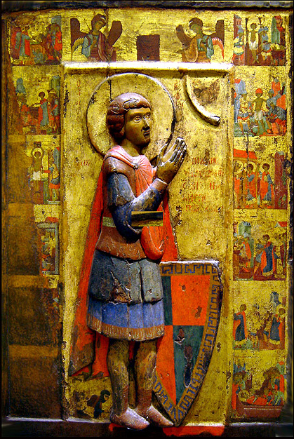 Byzantine icon of Saint George, in the Byzantine and Christian Museum in Athens.